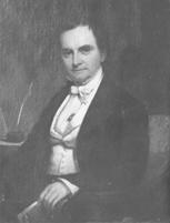 William Henry Haywood, Jr.